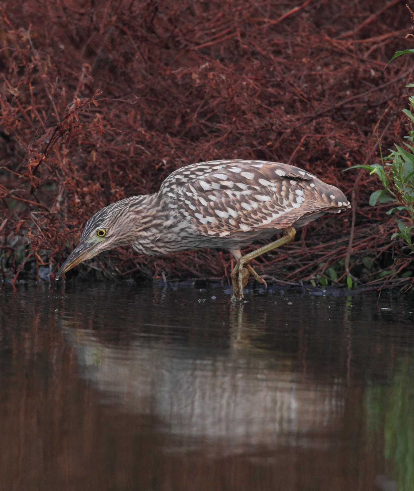 Nankeen Night Heron (Nycticorax caledonicus), Northern Territory, Australia